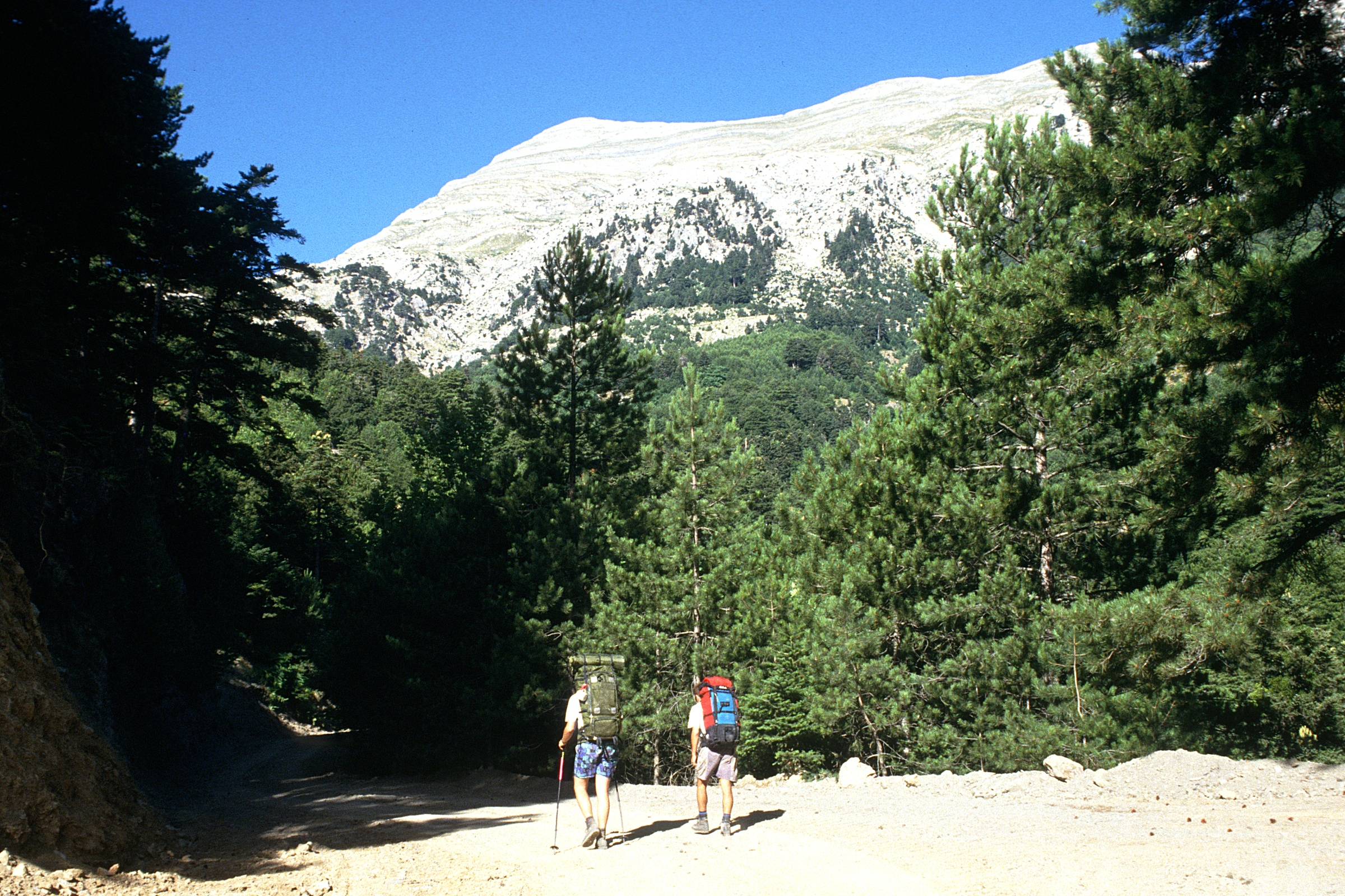 Profitis Ilias in the Taygetos mountains, with 2.407 meters it is the highest mountain on the Peloponnese peninsula. The peak is on the left side. Pinus nigra forest in foreground.